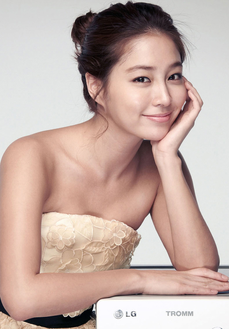 LG전자, 트롬 세탁기 새 모델에 이민정씨 영입 (English:Lee Min-Jeong as LG TROMM model)